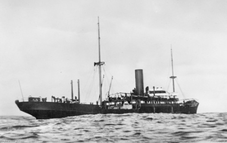 Papua New Guinea. Starboard view of the German Armed Merchant Raider, SMS Wolf.